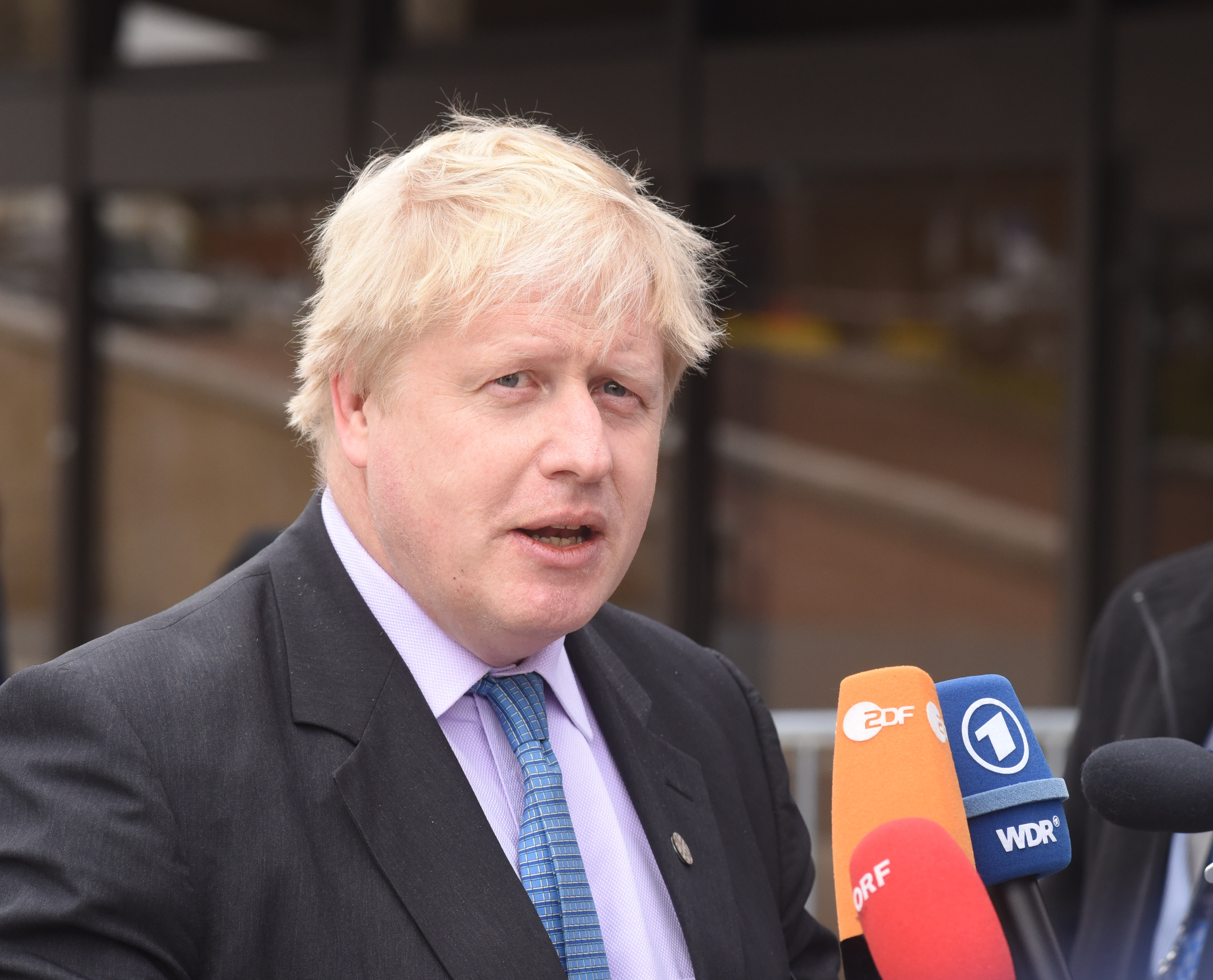 Boris Johnson, Her Majesty's Principal Secretary of State for Foreign and Commonwealth Affairs of the United Kingdom Photo: Velislav Nikolov (EU2018BG)